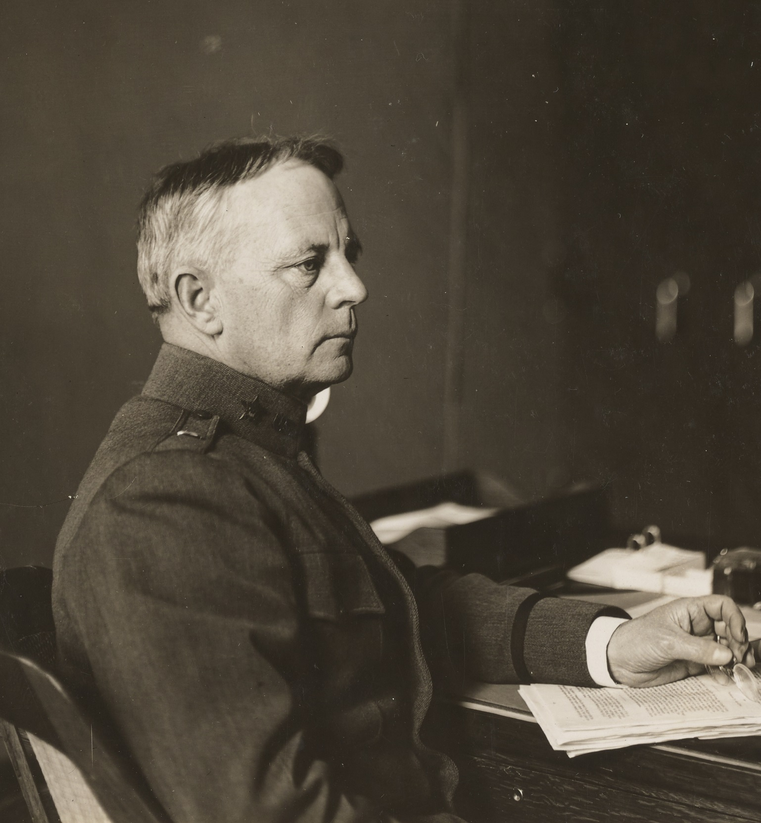 Brig Gen Palmer E Pierce, member of general staff